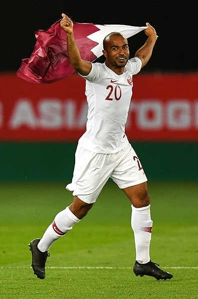 South Korea-Qatar, 2019 AFC Asian Cup Quarter-final